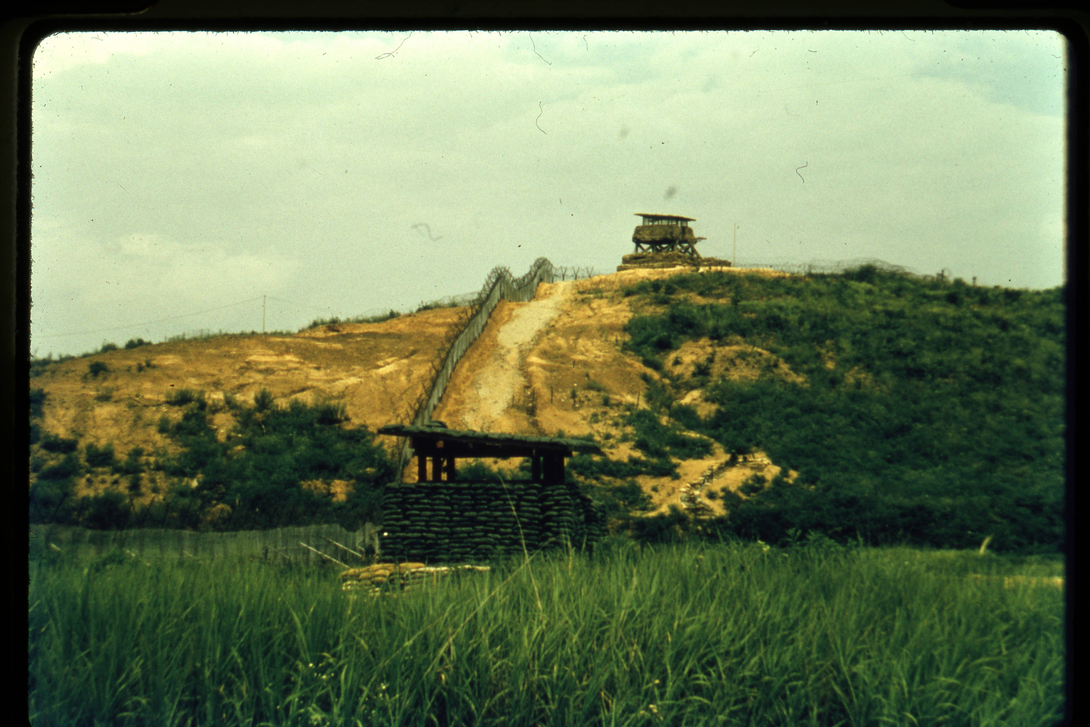 Chain link fence along the south boundary of the DMZ also shows two types of guard towers constructed by the 2nd Engineer Battalion